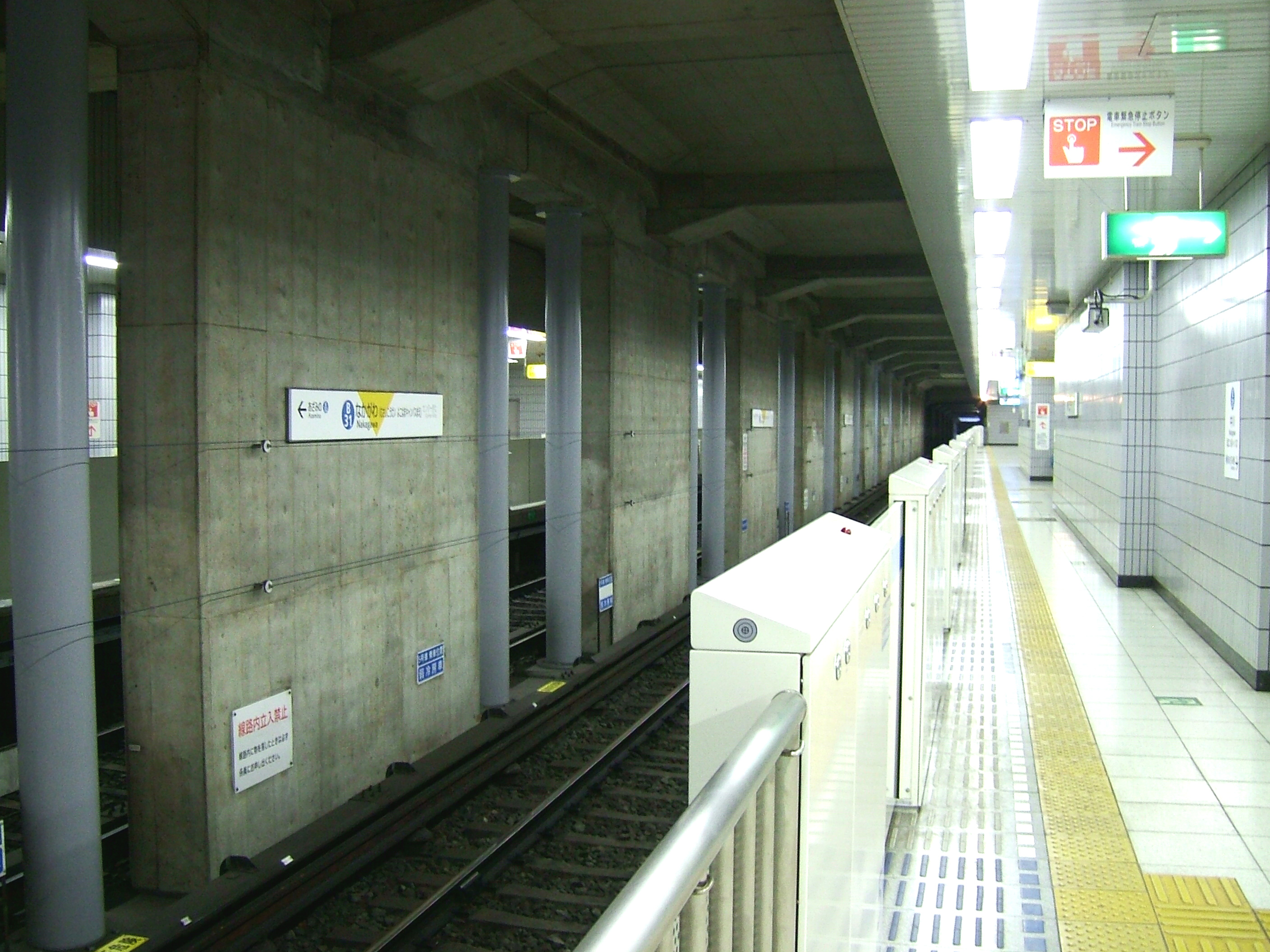 Nakagawa Station platform (Yokohama Municipal Subway Blue Line)